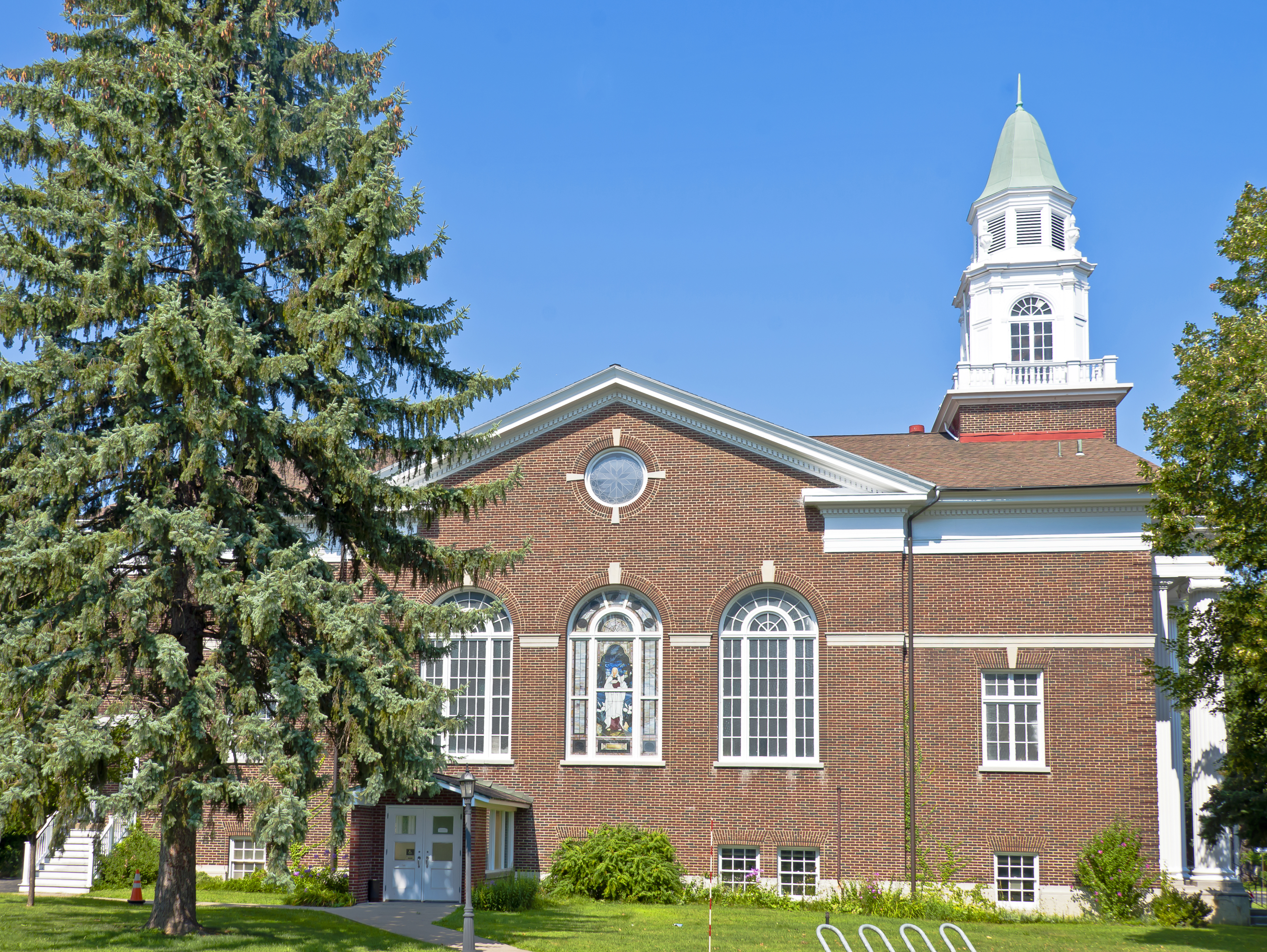 South facade of First Congregational Church of Albany, NY, USA